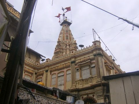 ದಕ್ಷಿಣ ಮುಂಬಯಿನಲ್ಲಿರುವ ದೇವಾಲಯ